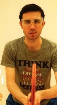 This image is from Issue 3 of The New Enthuiast book review of "Some Common Weaknesses Illustrated" entitled "This Book Heals People"